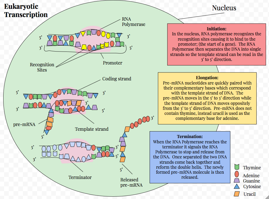 During eukaryotic transcription in the nucleus, RNA polymerase is used to separate DNA into two strands. The strand moving in the 3' to 5' direction is used as a template for pre-mRNA. Through complementary base pairs a pre-mRNA molecule is formed.